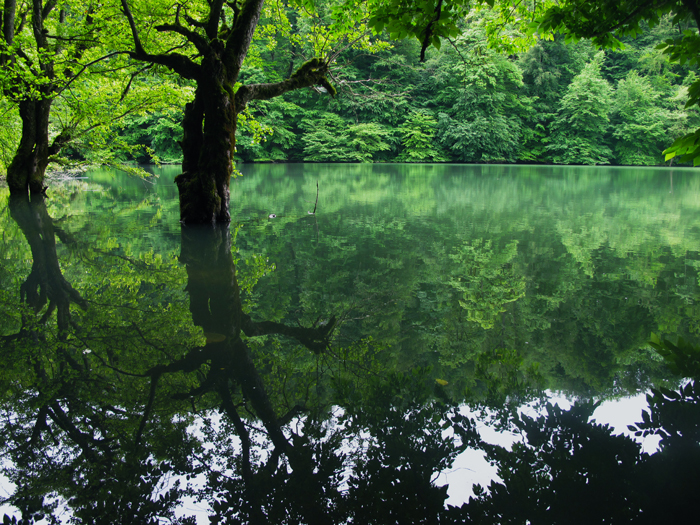 Miyansheh Lake, Mazandaran Province of Iran